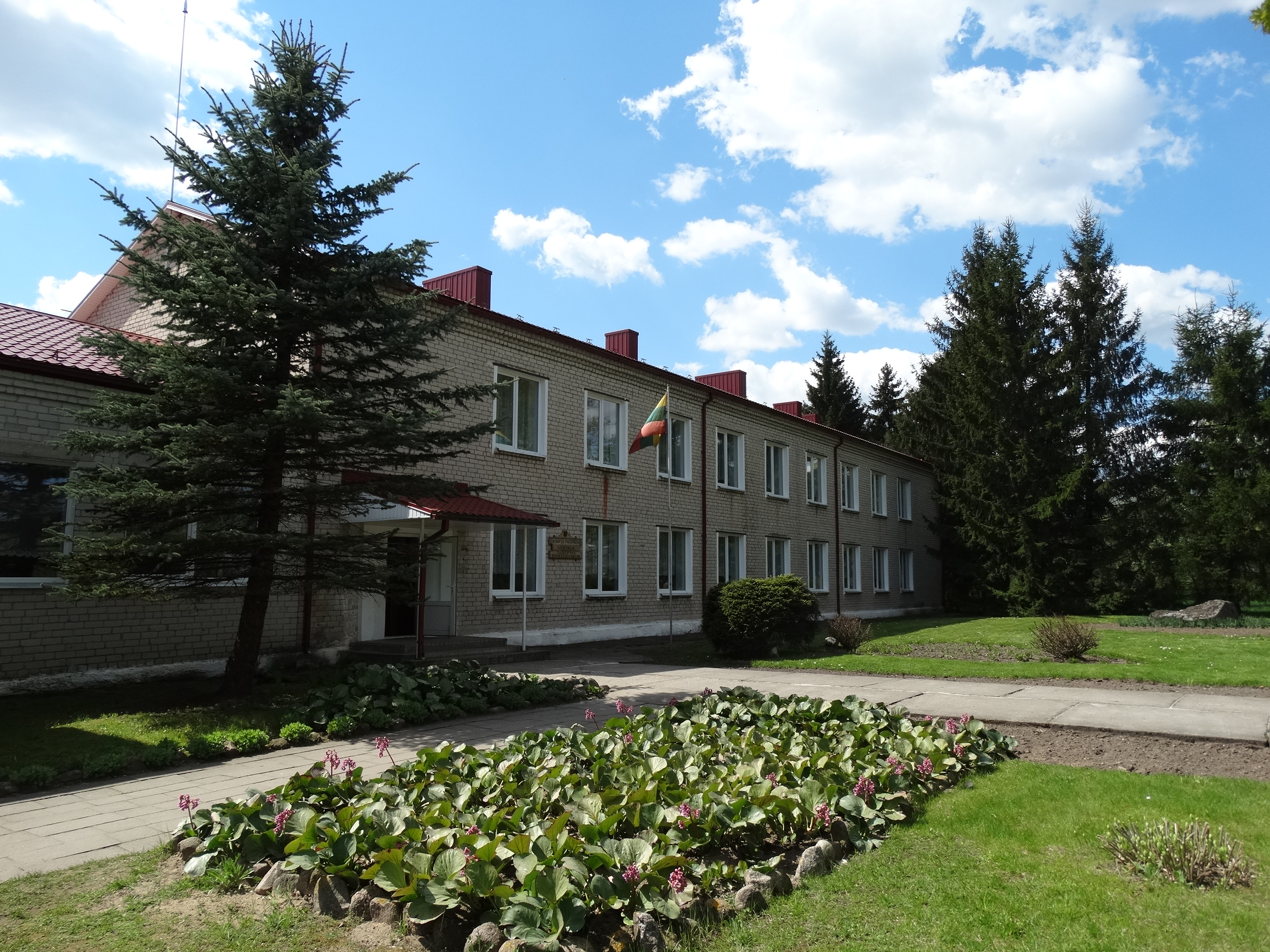 School, Dainava, Šalčininkai District, Lithuania